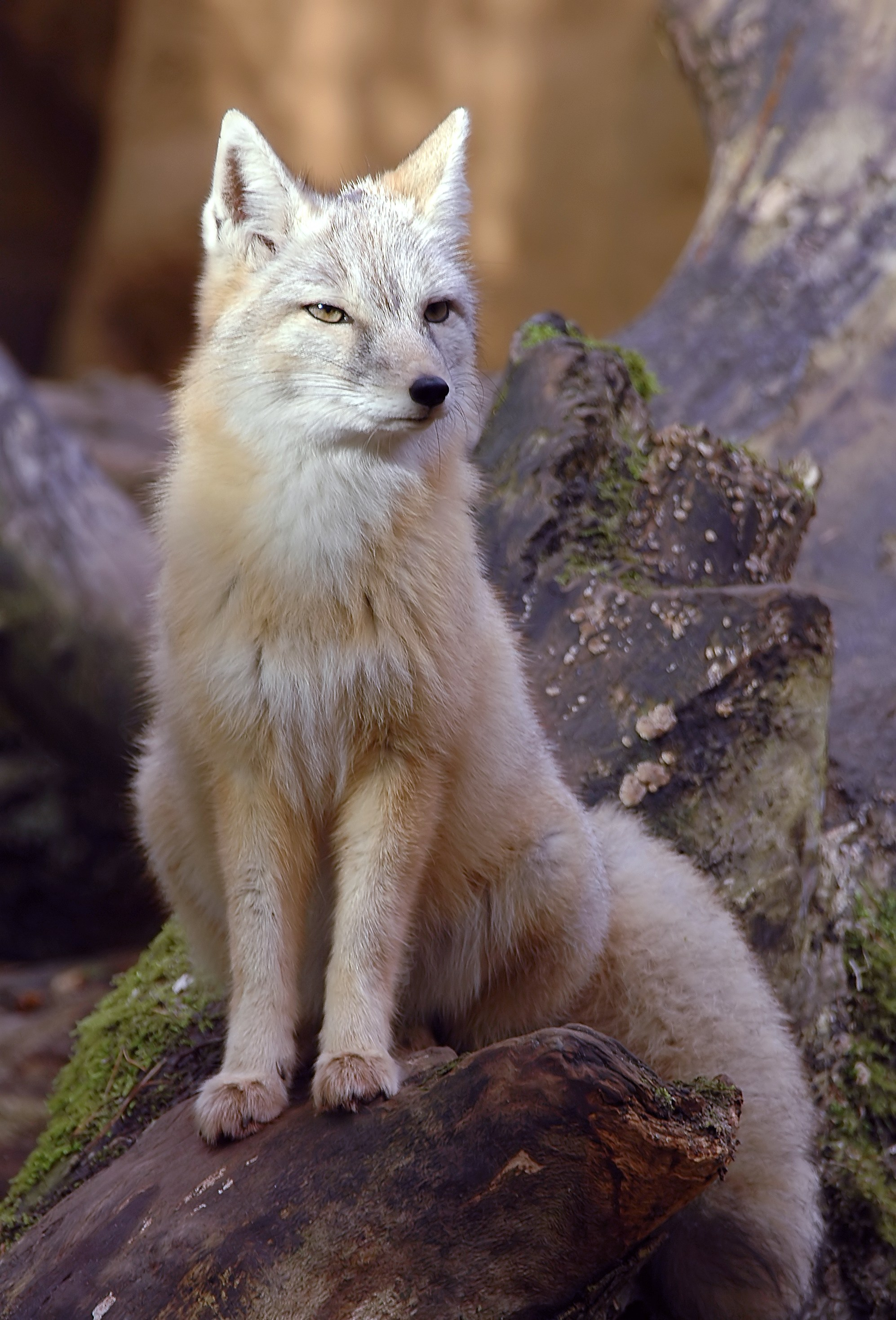 Zoo, Amersfoort Holland